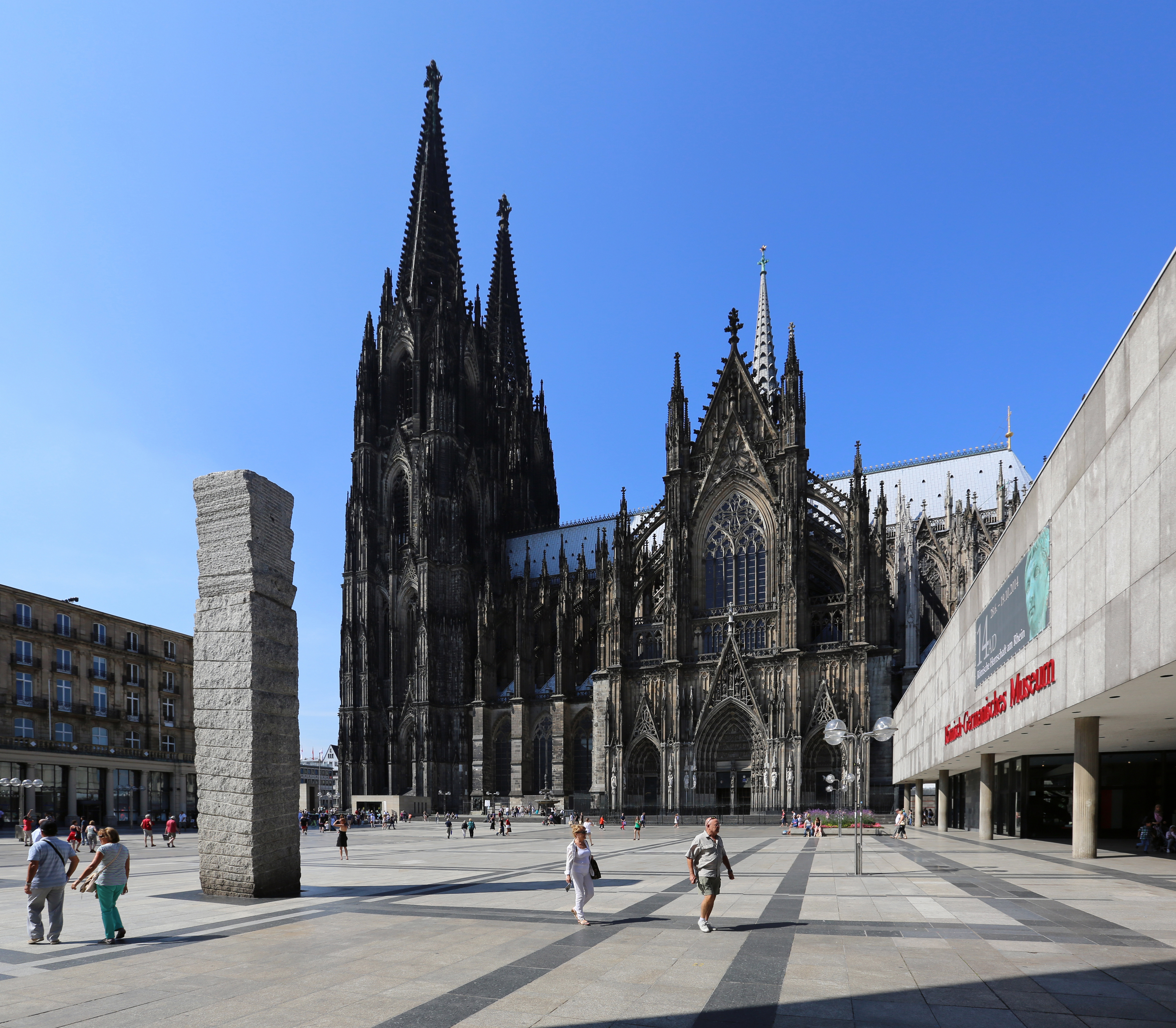 Cologne, Roncalliplatz in front of Cologne Cathedral